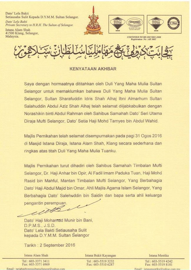 Press release of Sultan Sharafuddin Idris Shah marriage to Tengku Permaisuri Norashikin